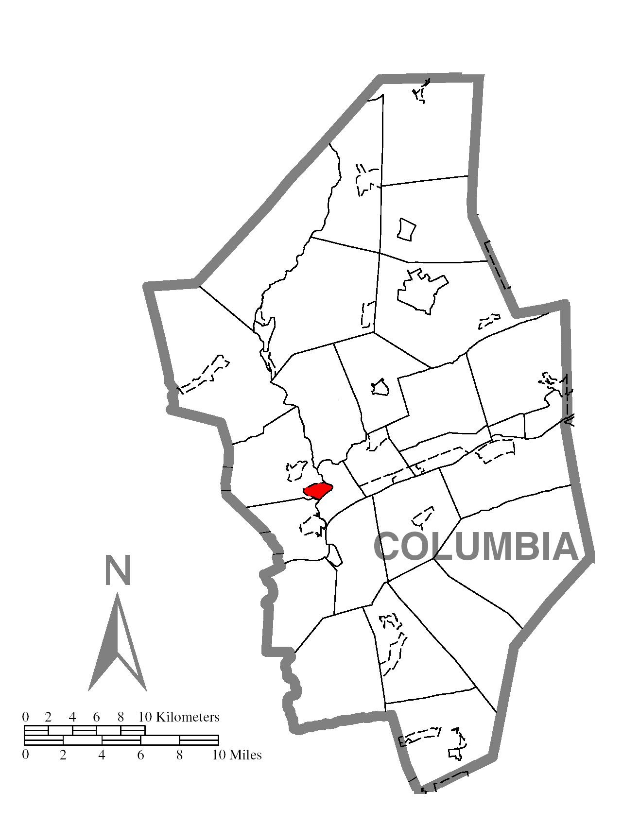 A map of Columbia County showing Fernville, Pennsylvania (alternate) highlighted on the map.